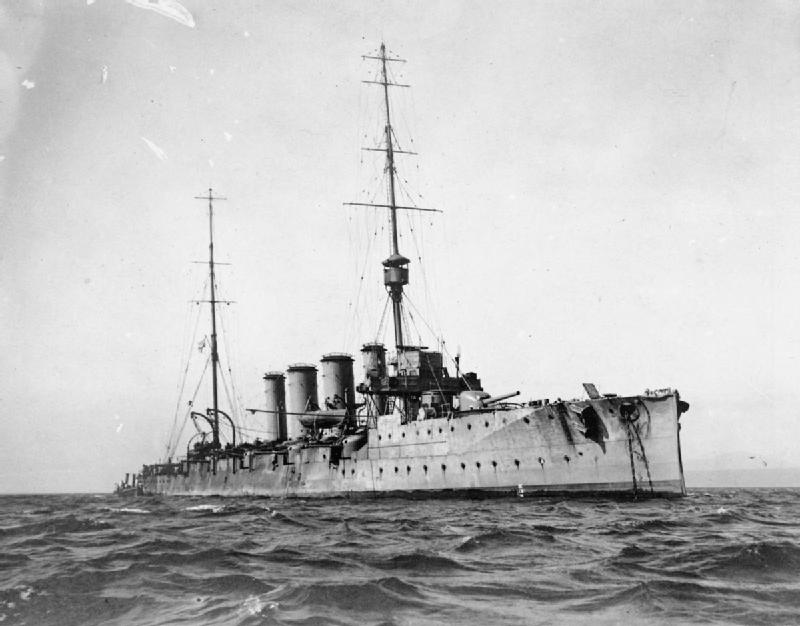 British light cruiser HMS GLASGOW at Valparaiso in Chile before the Battle of Coronel of 1 November 1914.